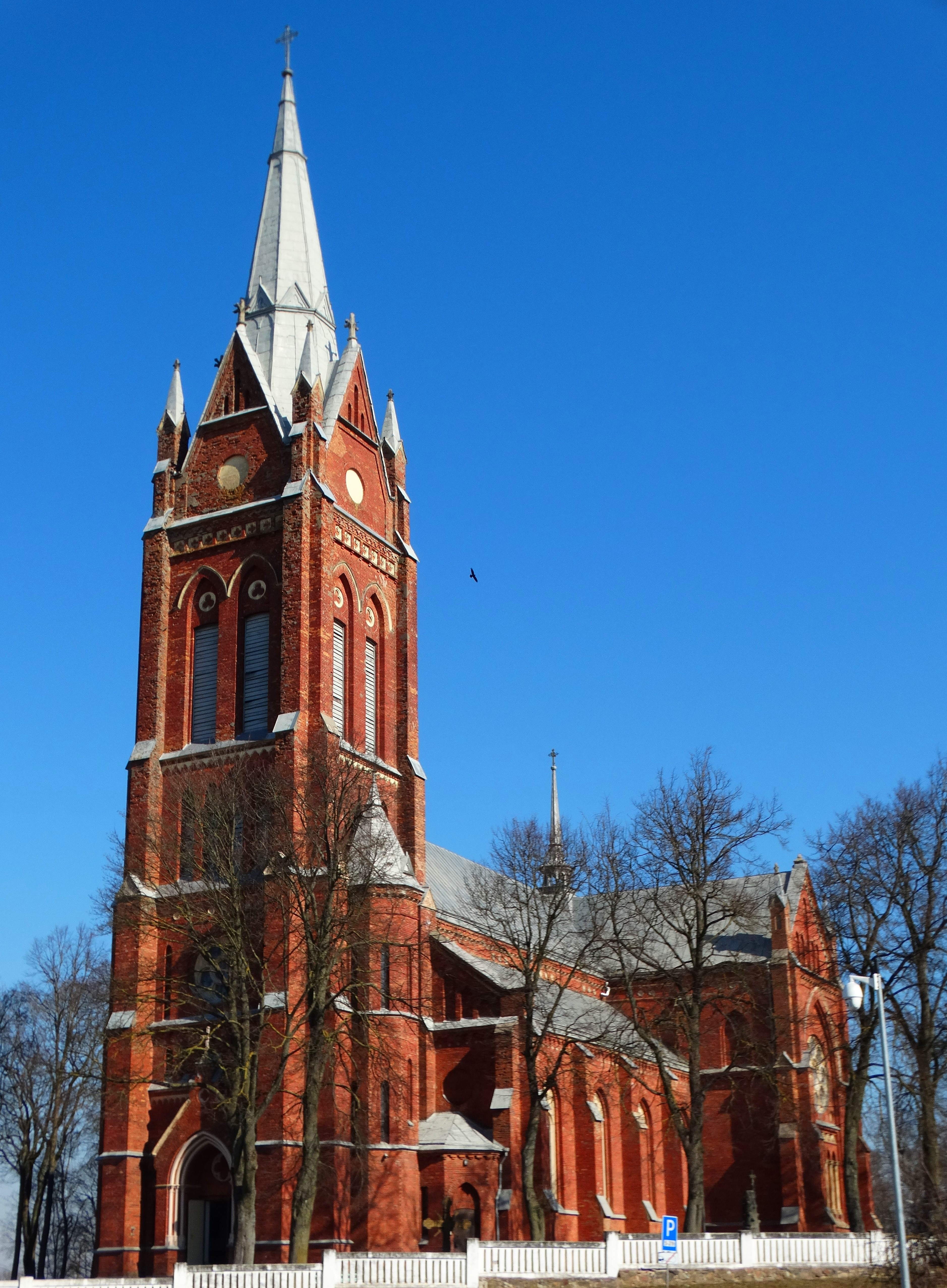 Church of the Assumption of The Holy Virgin Mary, Kelmė, Lithuania